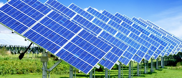 placa solar